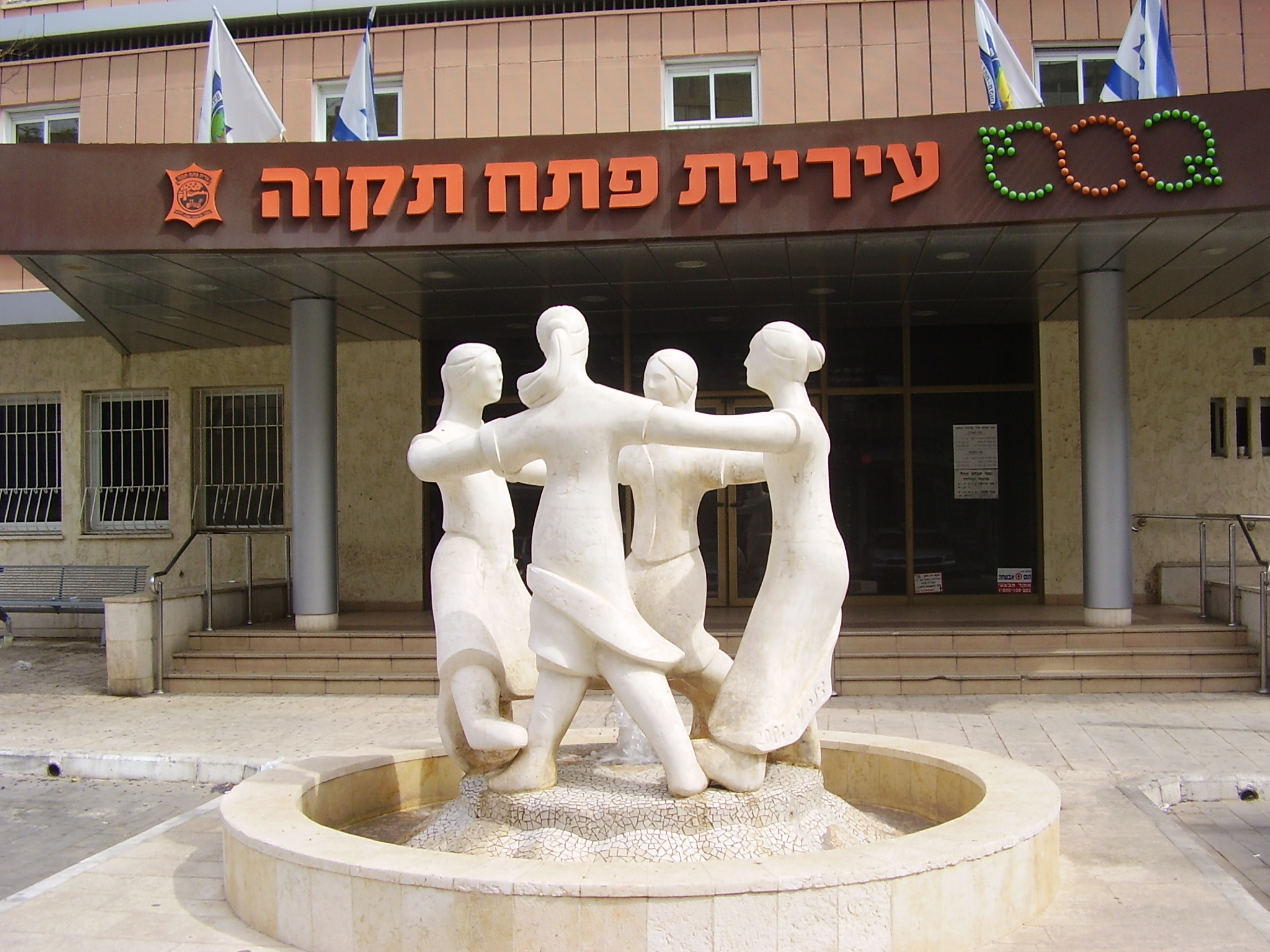 Four mothers sculpture in Petah-Tikva, Israel